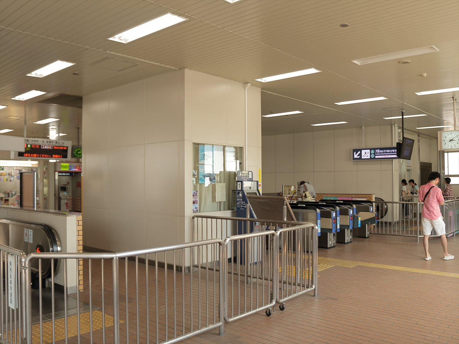 Ticket Barrier from Shōjaku Station.